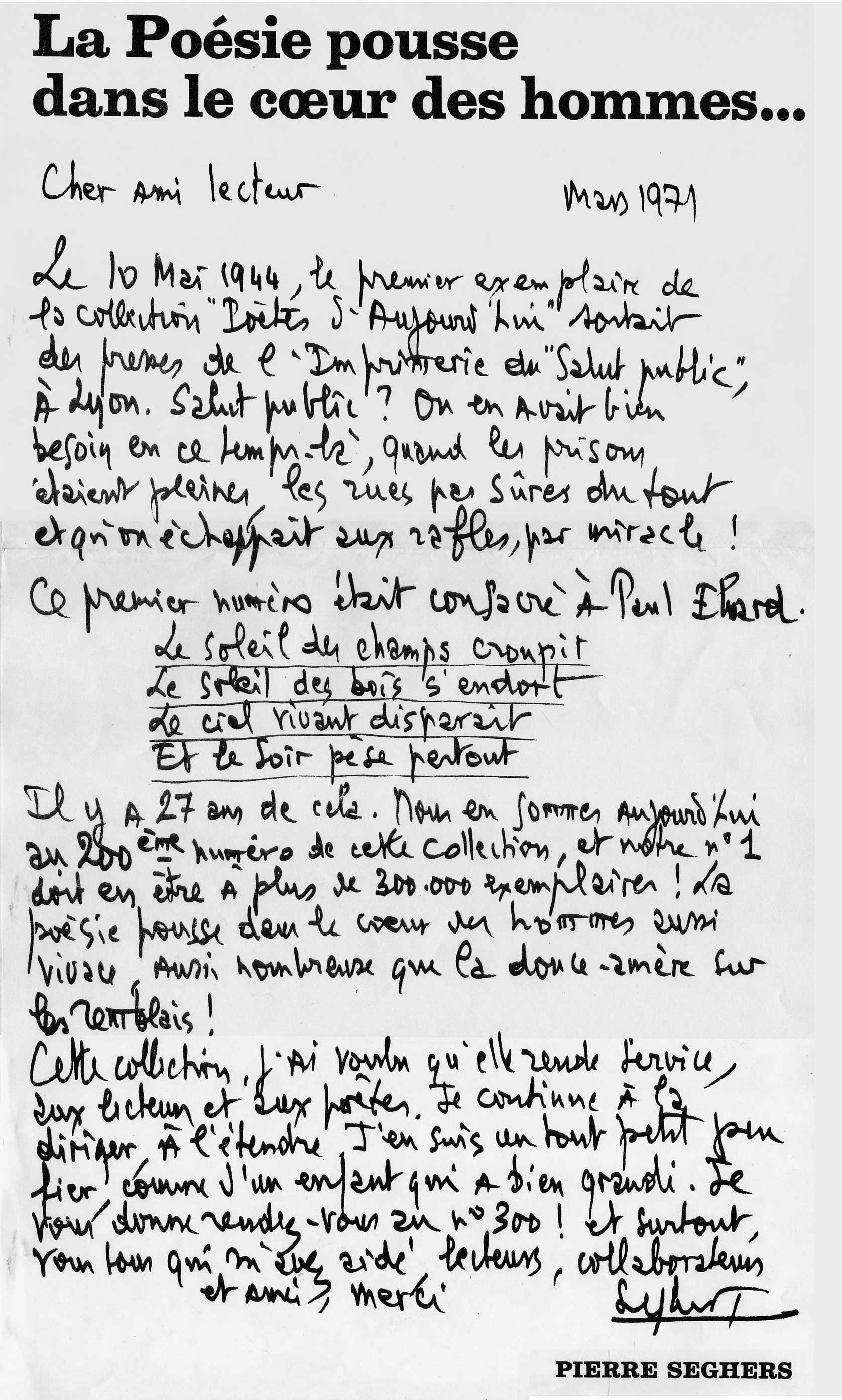 hand written poster of Pierre Seghers about his collection Poètes d'aujourd'hui, may 1971